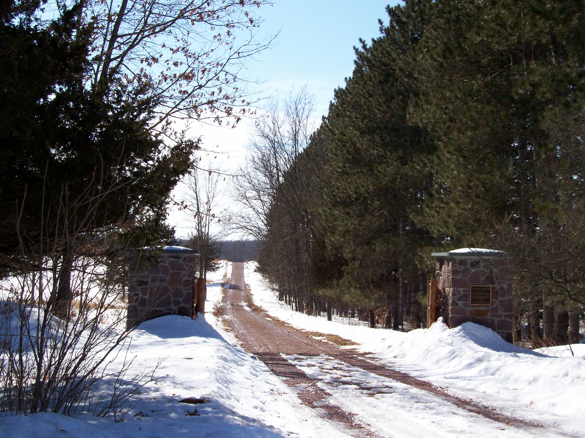 Looking north at John Muir's Fountain Lake Farm 7 miles south of Montello Montello, Wisconsin, USA on County Highway F. The place is on the National Register of Historic places. Trespassing is prohibited. Taken March 11, 2007 by myself.